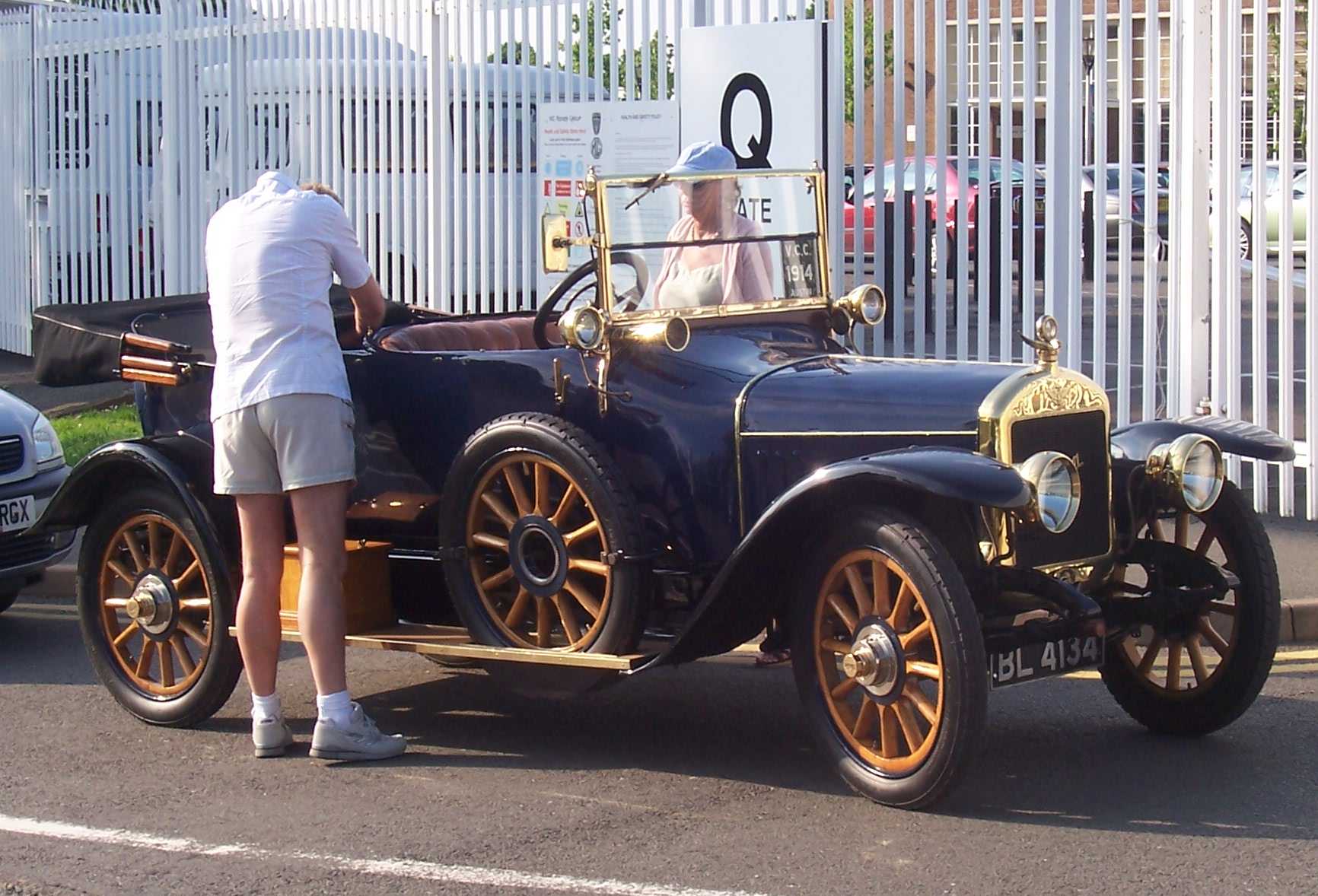 1911 1914 Austin at Longbridge1914 Austin Ten tourer, body by Peters Longbridge 9 July 2005 car 11165 chassis 11165 engine 11294